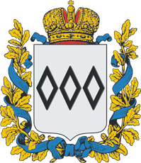 Piotrków gubernia (Russian empire), coat of arms